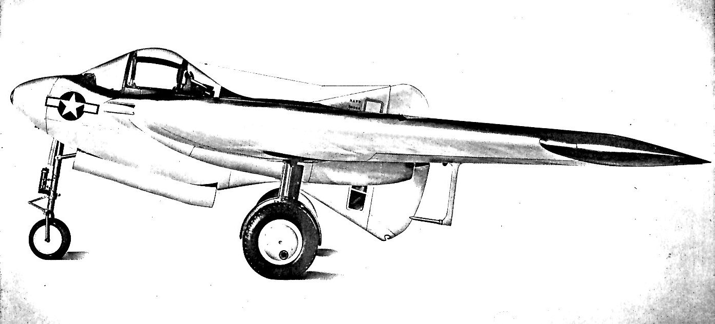 Artist's concept of a piloted version of the Interstate XBDR-1 assault drone.